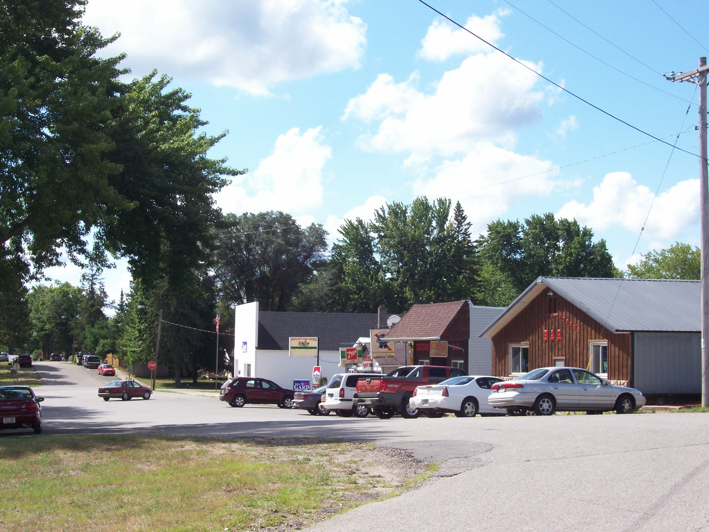 Looking south at downtown Amberg (community), Wisconsin.